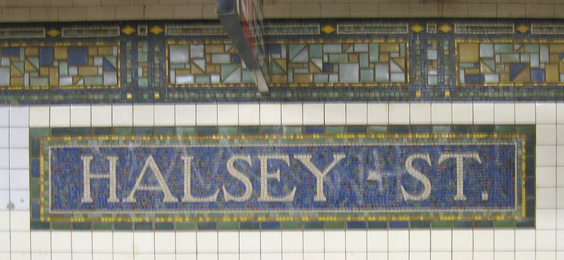 Looking south at station ID tile on southbound platform of Halsey Street (BMT Canarsie Line)